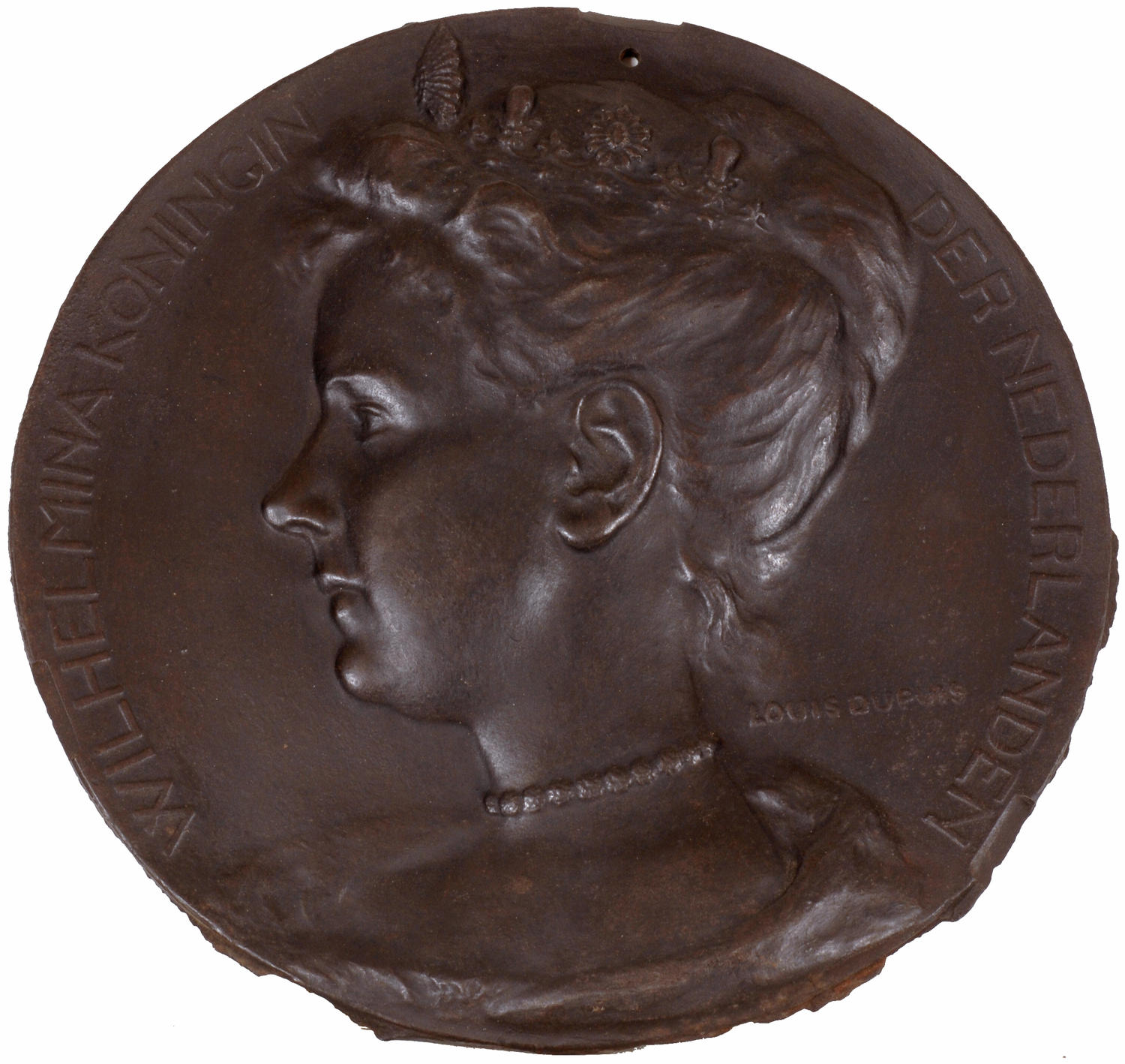 bas-relief in the collection Marie-Louise Dupont